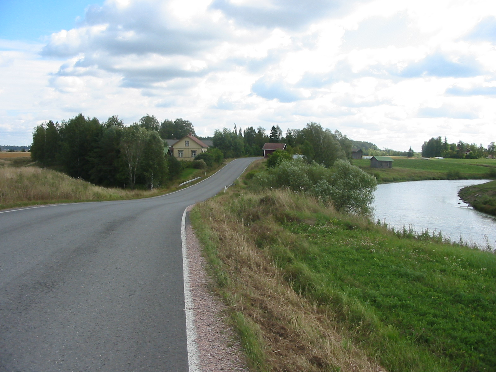 Connecting Road 12307, part of the Häme Oxen Road, in Prunkila, Marttila, Finland. On the right the river Paimionjoki.